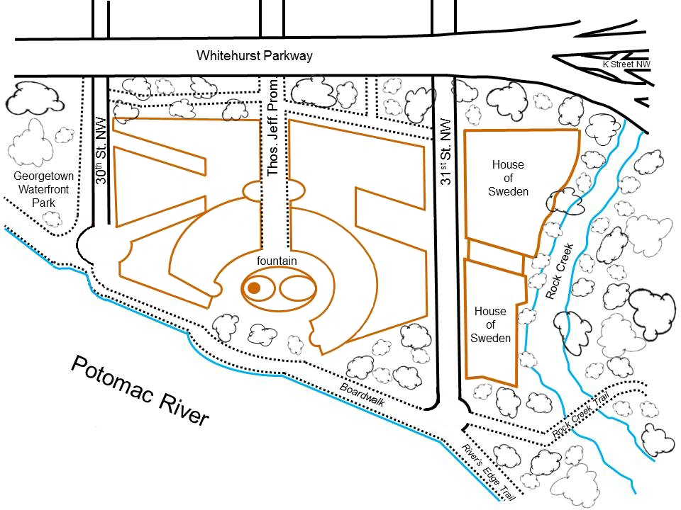 A map of a portion of the waterfront in the Georgetown neighborhood in Washington, D.C., in the United States. The map shows the area of the Washington Harbour retail/office/residential complex, the pedestrian passages around and through the complex, the boardwalk, Georgetown Waterfront Park, and the House of Sweden (Swedish Embassy).